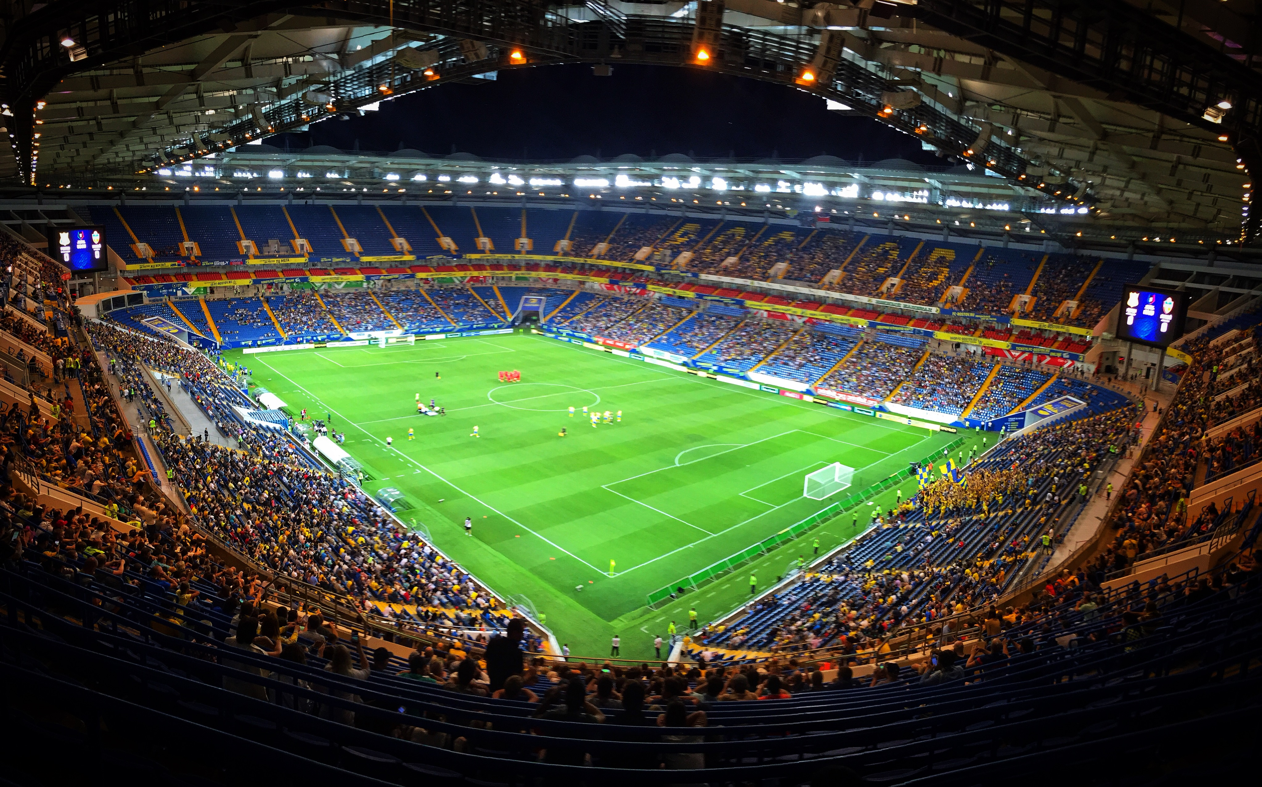 Match between the clubs of FC Rostov and FC Yenisei in the framework of the Russian Championship of 2018-2019 season. August 19, 2018.